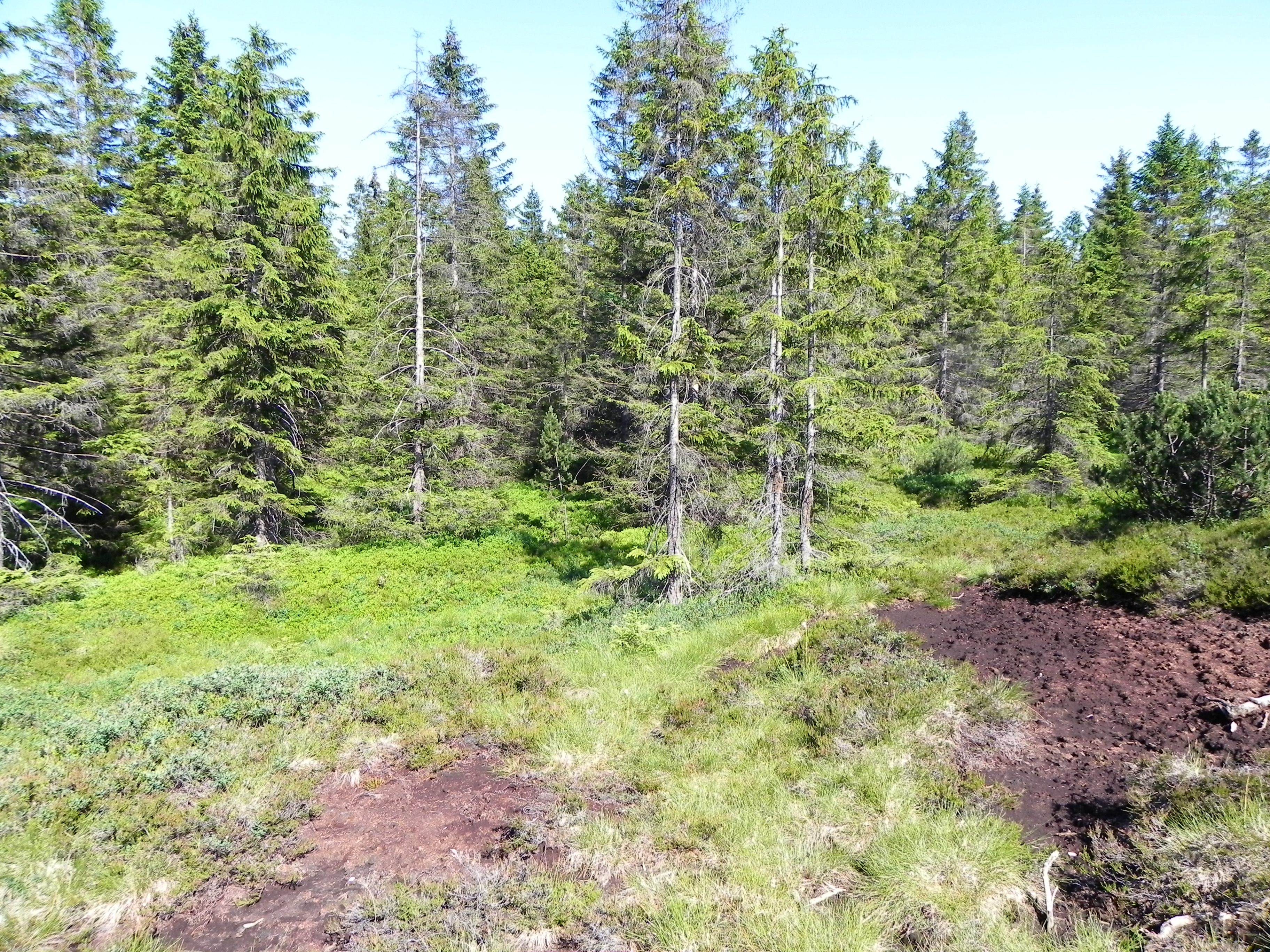 National nature reserve Velký močál in Sokolov District, Czech Republic